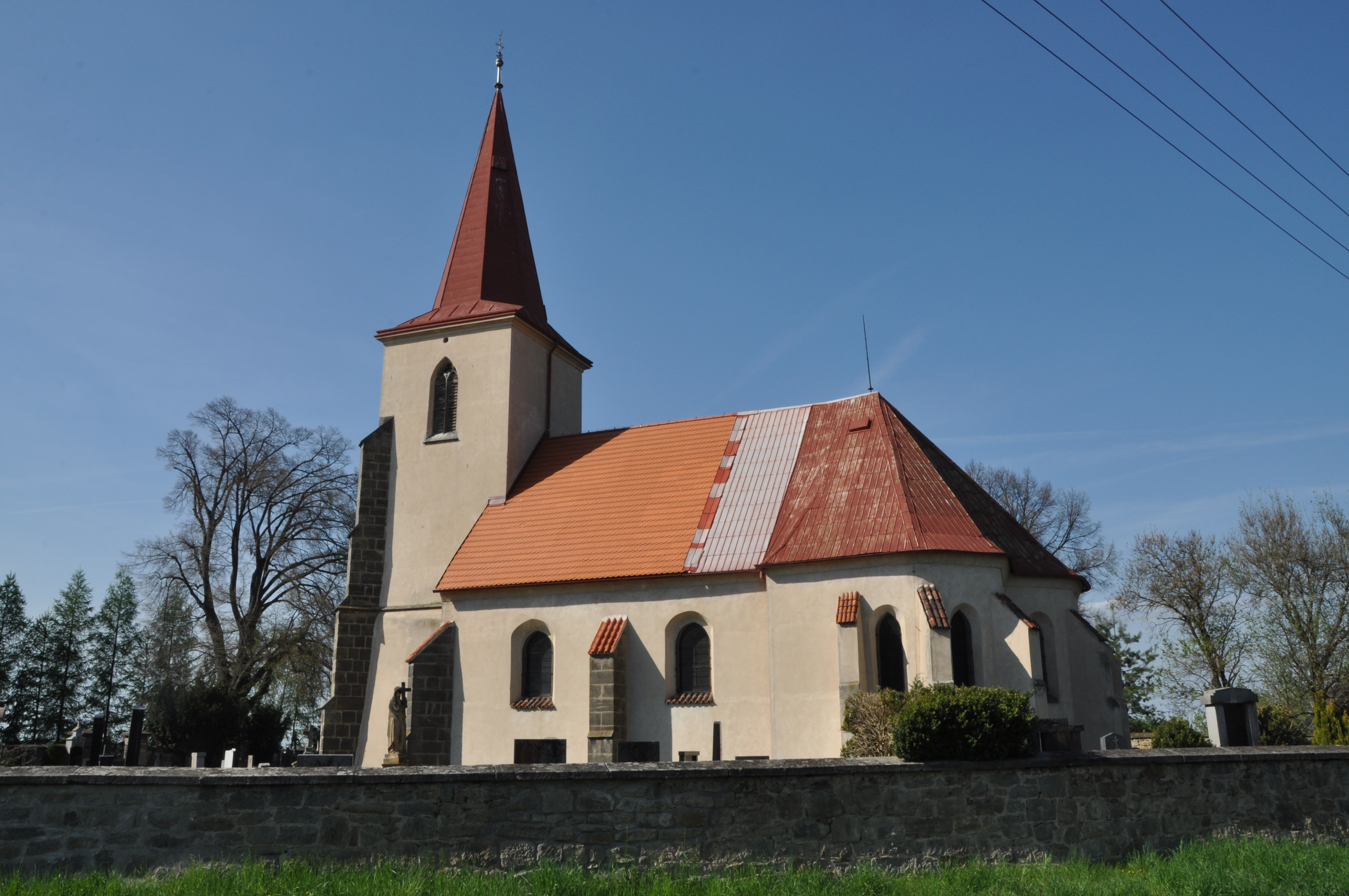 Saint George Church, Tři Bubny, part of Orel municipality, Chrudim District, Pardubice Region, Czech Republic